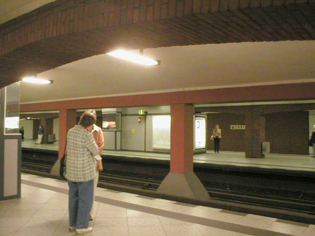 U-Bahn Berlin /The Berlin subway station Mehringdamm lines U6, U7.